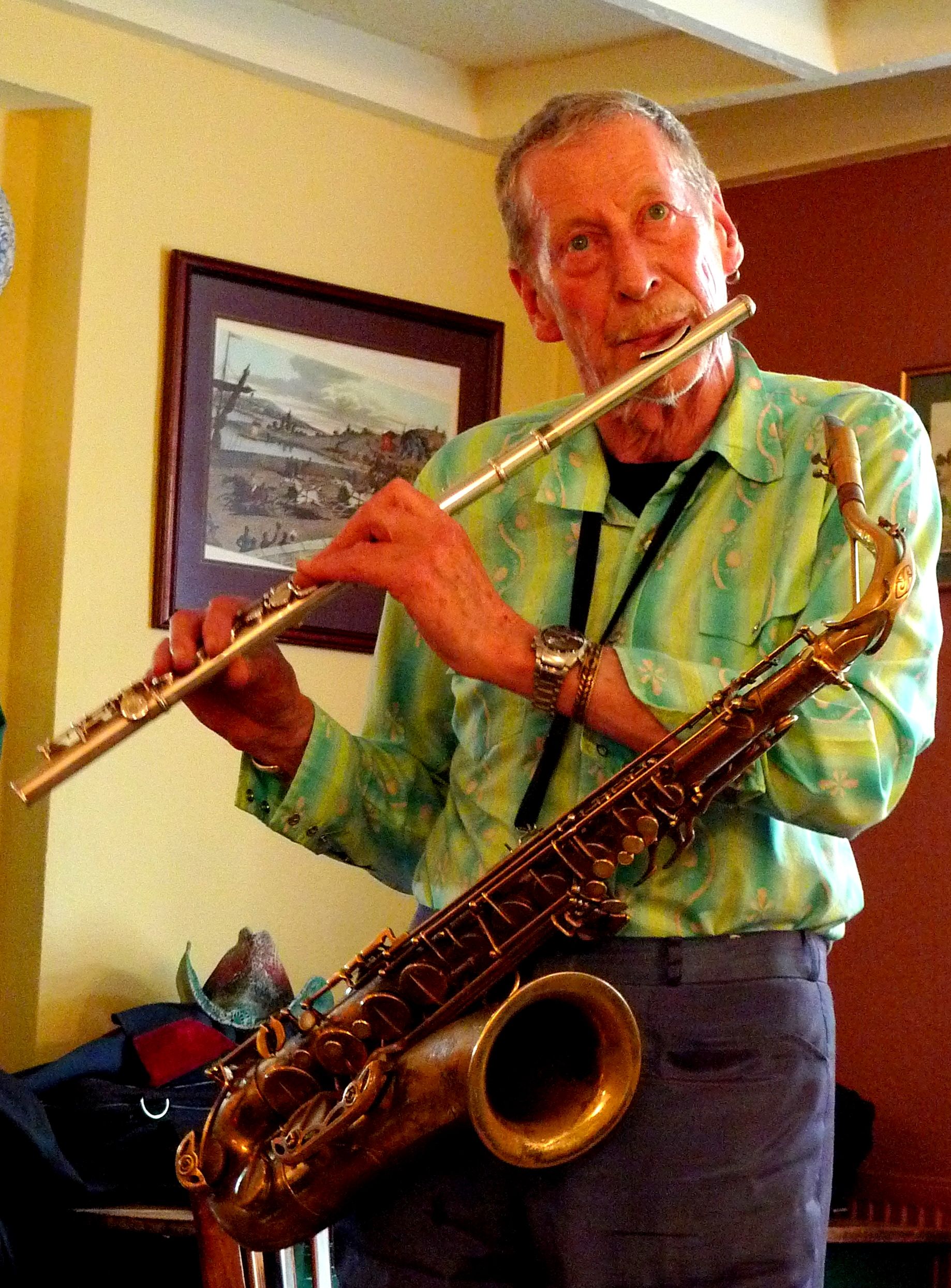 Nik Turner playing at the bulls head at brecon fringe 2010.